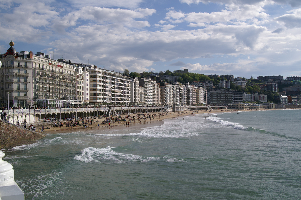 La Concha Beach (San Sebastian, Basque Country, Spain)